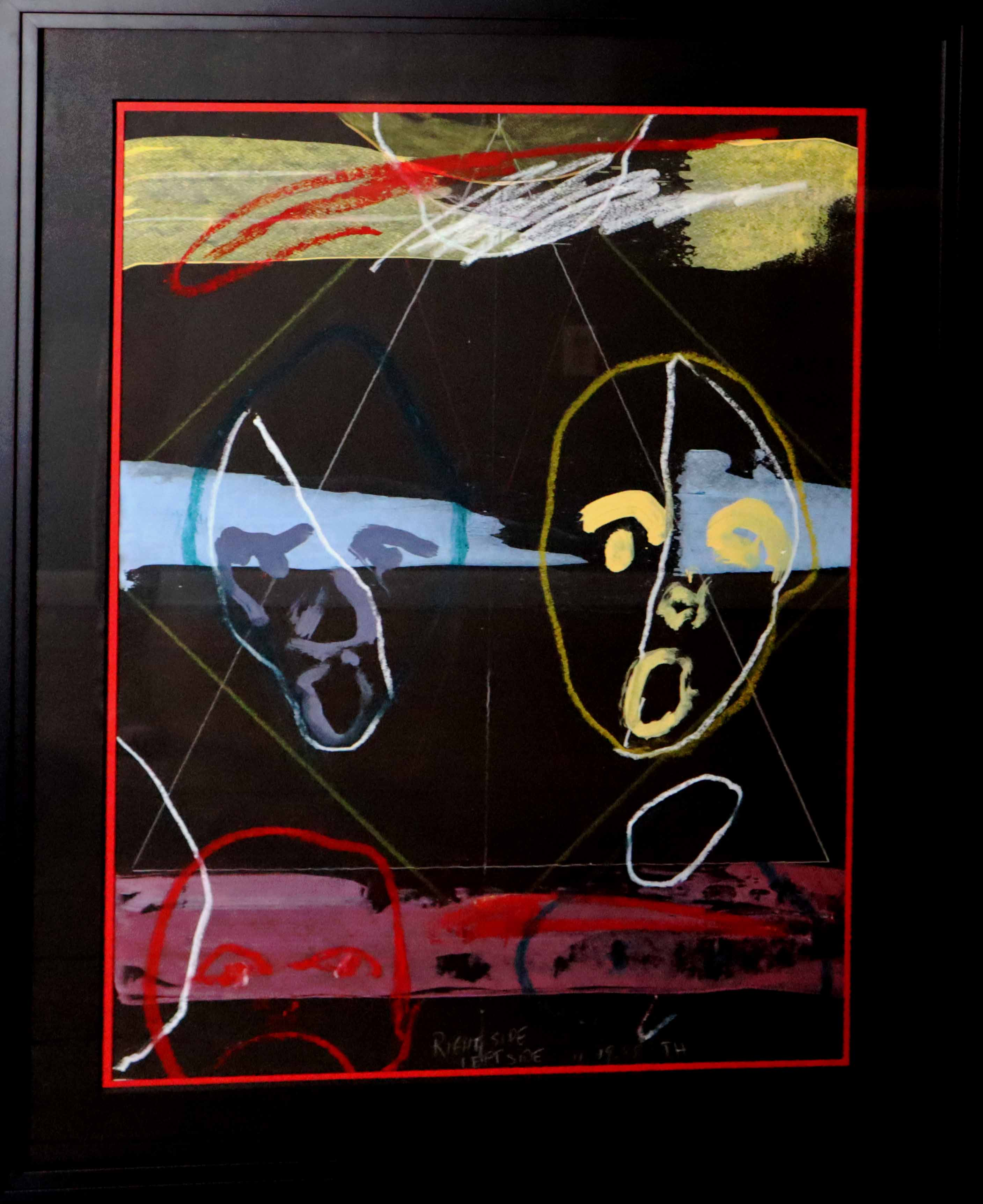 "Right Side/ Left Side", November 19, 1988. Crayon, Gouache & Tempera on Paper.